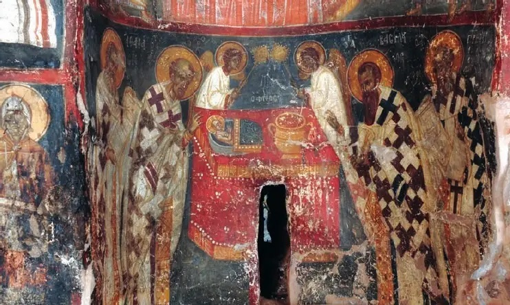 Saint Nicholas of Tzotzas Church Fresco 01